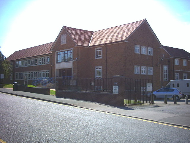 Sutton Magistrates' Court, Shotfield, Wallington.